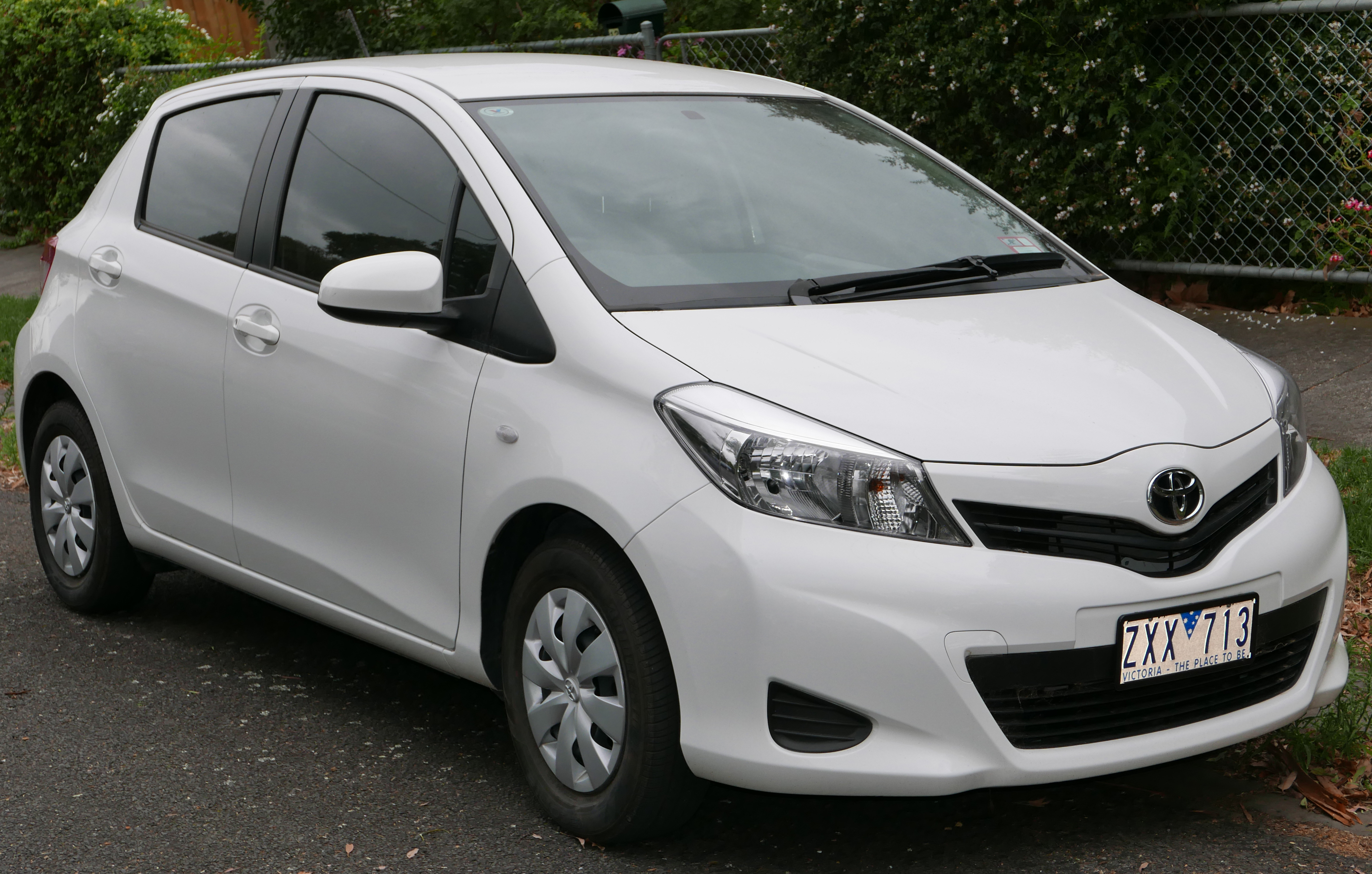 2013 Toyota Yaris (NCP130R) YR 5-door hatchback. Photographed in Coburg, Victoria, Australia. Vehicle registration enquiry resultsJurisdictionVictoriaRegistrationZXX713Chassis codeJTDKW3D3X0D541319Engine code2NZ6781949Compliance date2013-08Year of manufacture2013